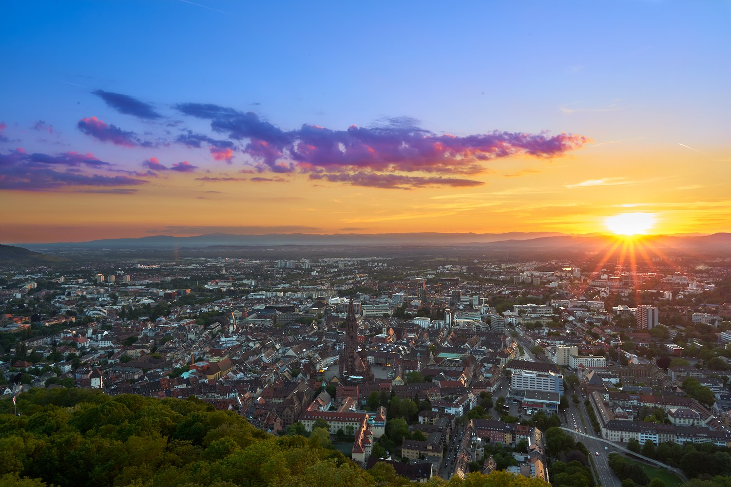 Sonnenuntergang in Freiburg im Breisgau, Blick vom Schlossberg in die Freiburger Innenstadt. Im Hintergrund sind die französische Vogesen zu sehen.